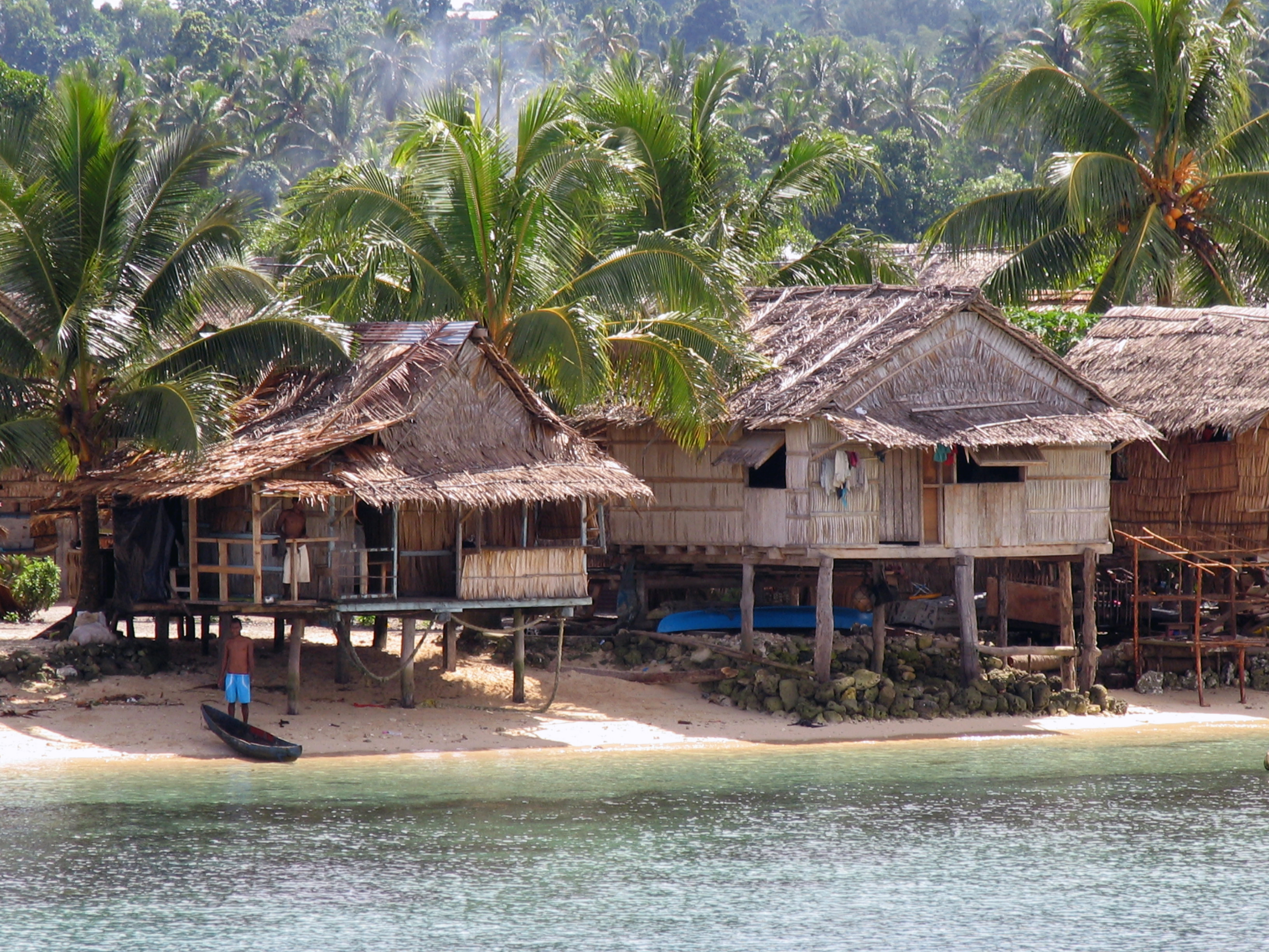 Medium shot of idyllic villages beach near Auki, the capital of Malaita.